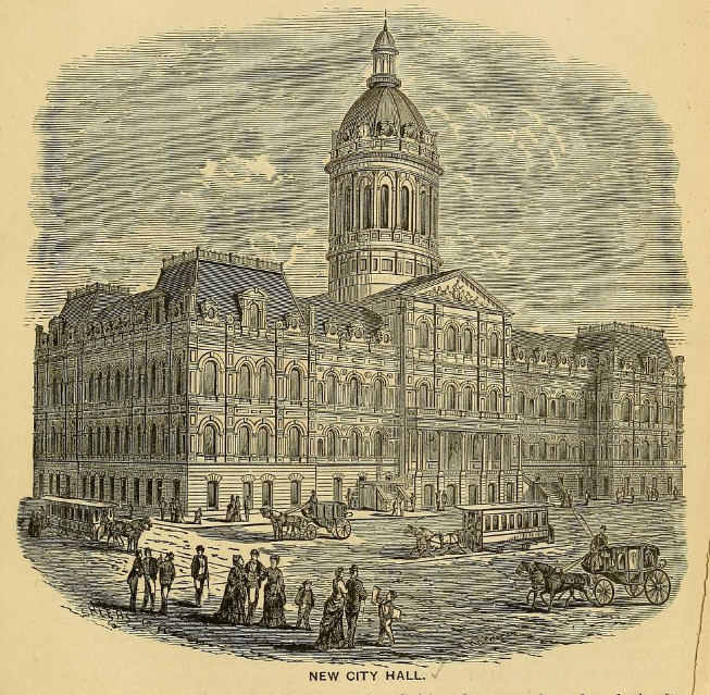 Lithograph of Baltimore City Hall. Image appears in The Monumental city, its past history and present resources by George W. Howard, published in 1873.